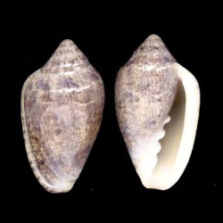 Species: Marginella broderickae Hayes, 2001 Specimen: Patrick Lepetit collection data: dredged 80m South East Cape, South Africa L 26,3mm